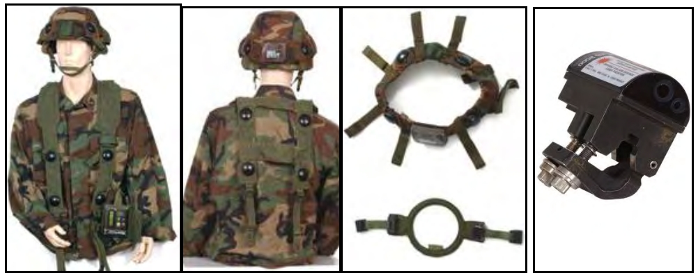 M4-M16A1-M16A2-Multiple Integrated Laser Engagement System (MILES 2000) Kit. The Purpose of this trainer is to replace Basic MILES systems at home-station due to age of technology and cost to maintain. The M2K system incorporates an After Action Review capability not in the Basic MILES, which greatly enhances training for the soldiers participating in the exercises. This device is a component of the Multiple Integrated Laser Engagement System 2000 (M2K). The M2K is a family of training systems which simulate the effects of direct-fire weapons at their operational ranges. The M2K system is primarily used for force-onforce training from squad up to and including Brigade level. M2K equipment is downward compatible with the Basic MILES equipment presently fielded. (From the above mentioned source: Ordnance Training Aids, page 197.)